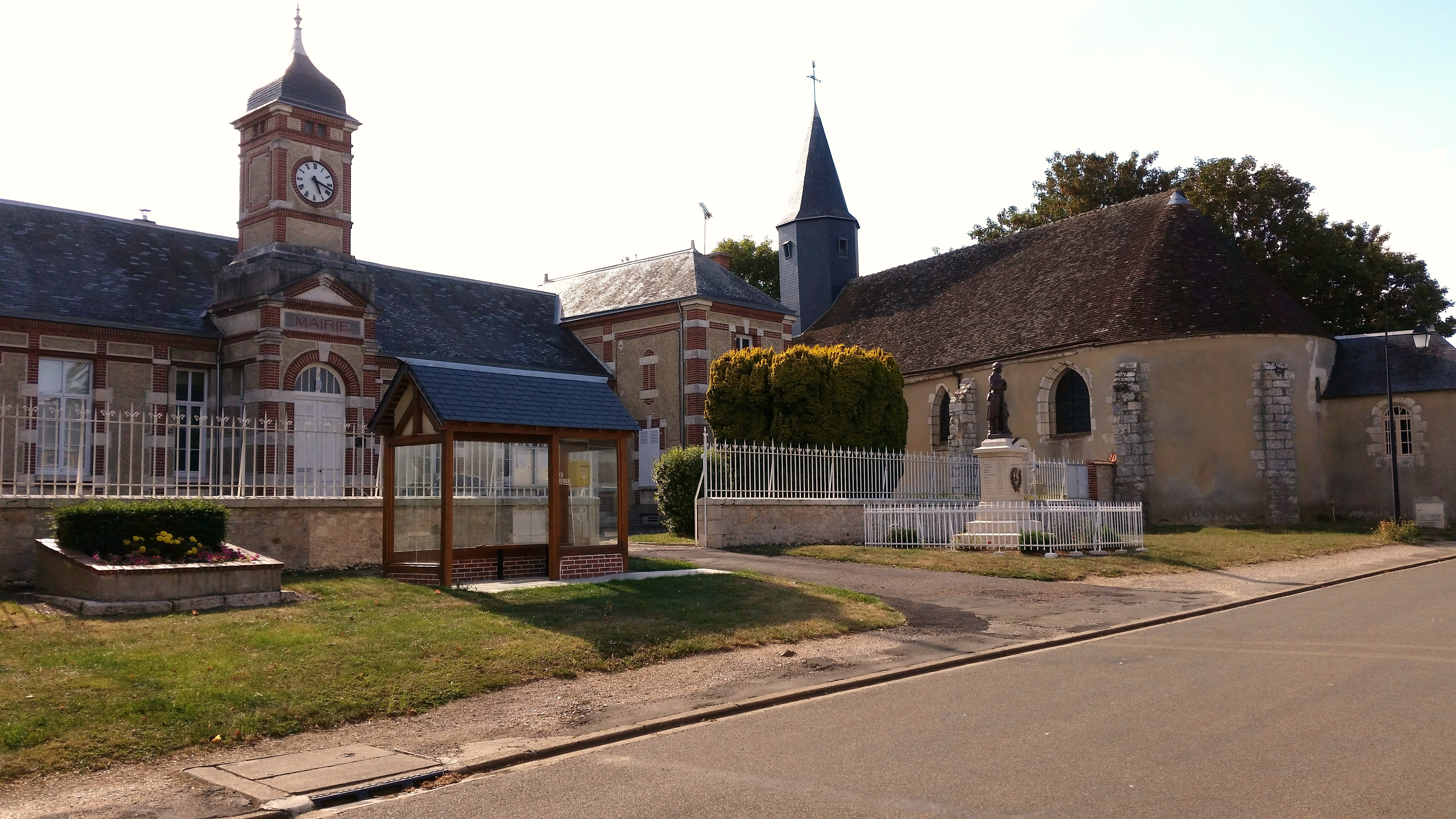 The town hall, the war memorial and the church of Civry, Eure-et-Loir, France.